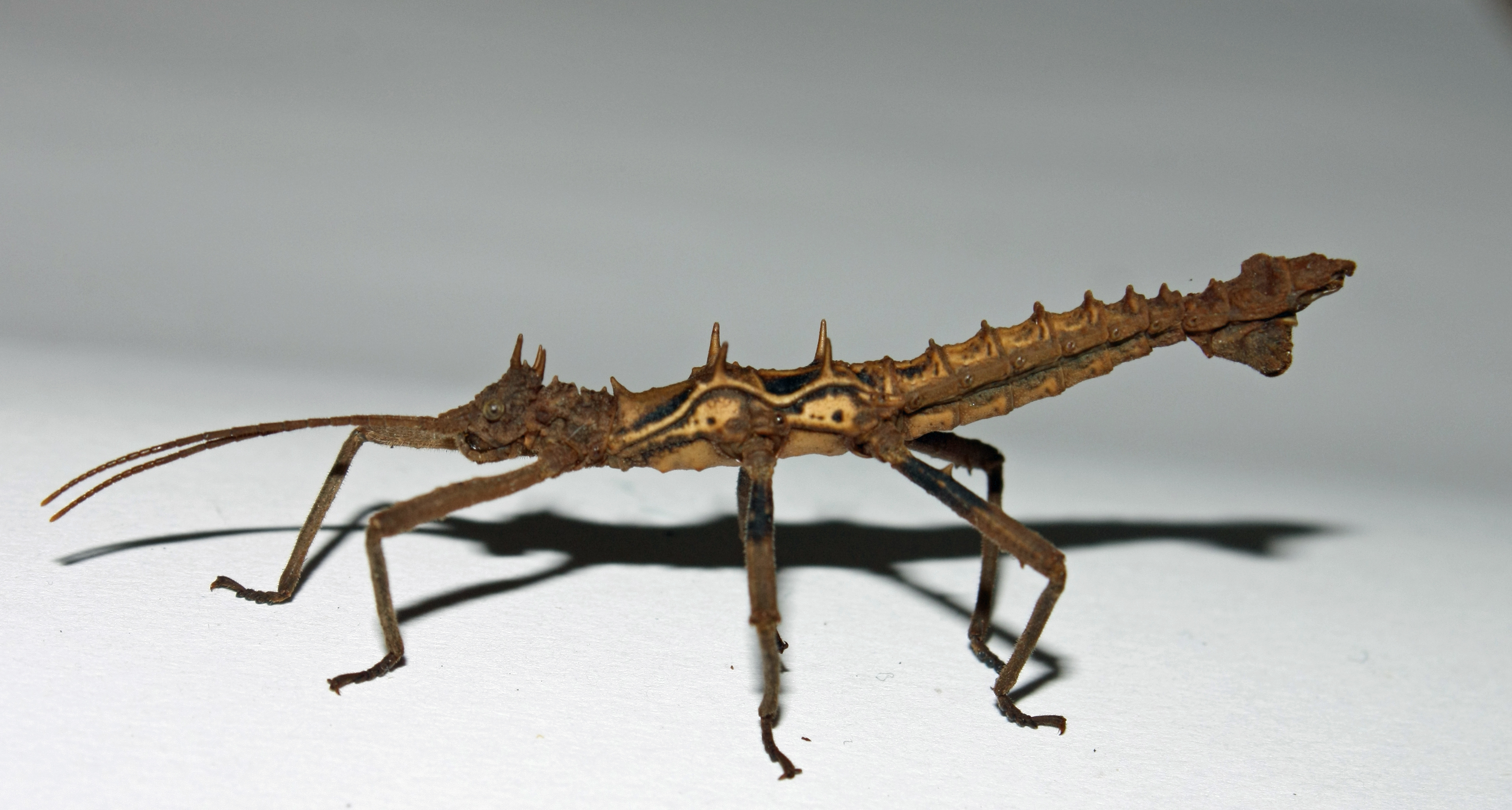 male of Spiny Sabah Stick Insect (Dares verrucosus) in sideview